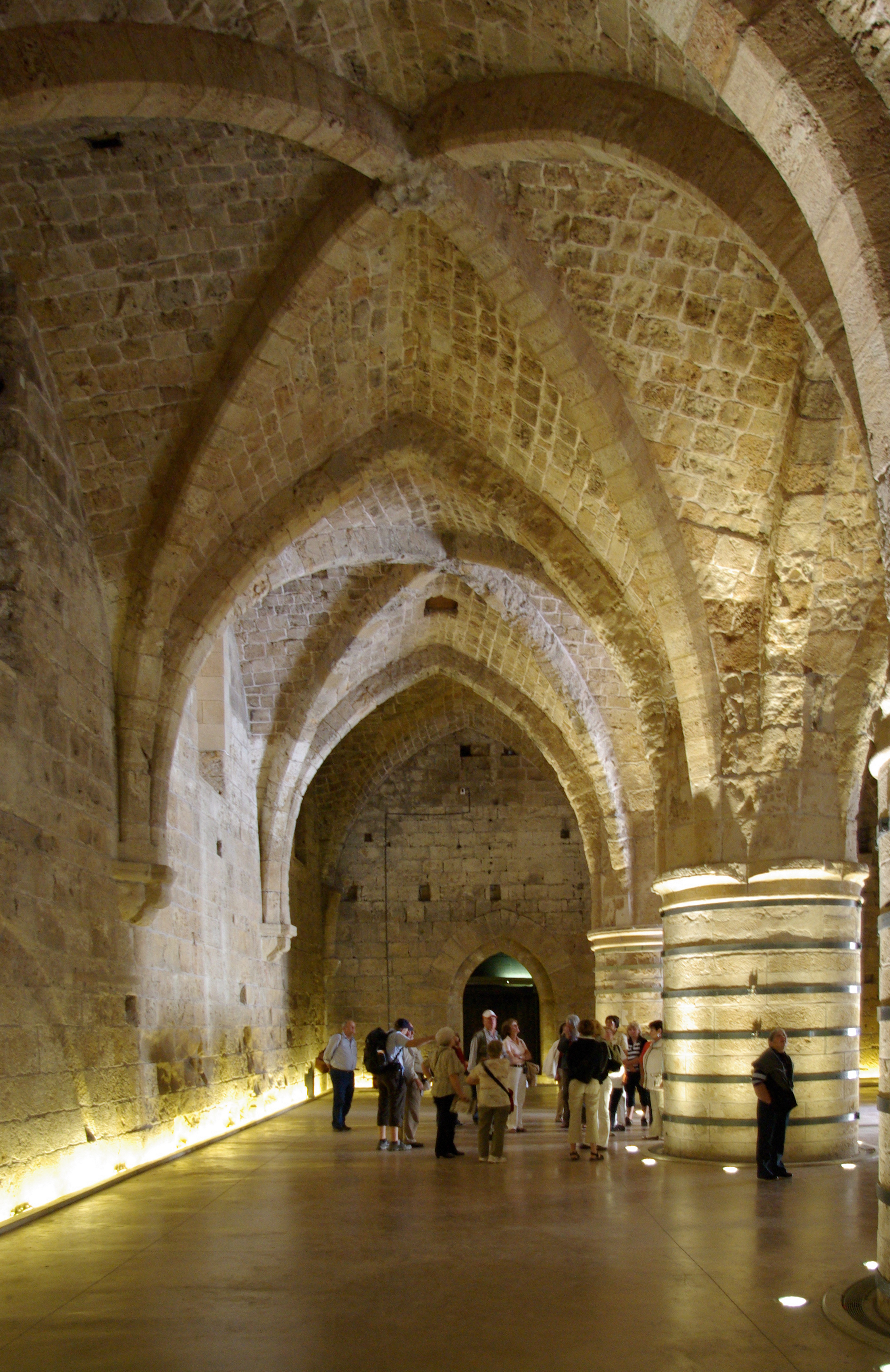 Acre, Hospitallers' citadel